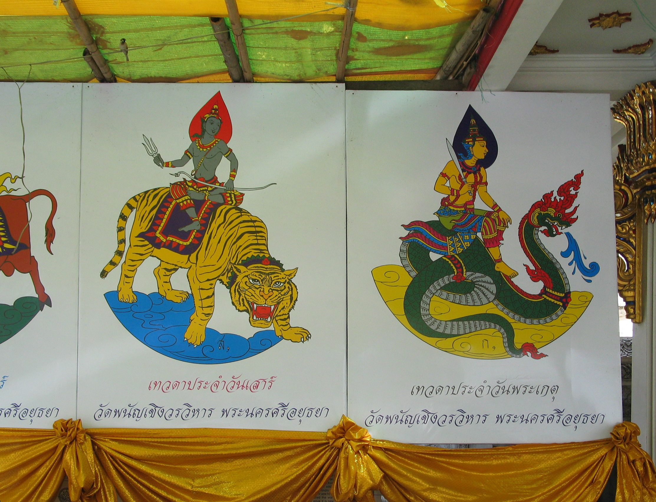 Personification of weekdays in Thailand: Saturday